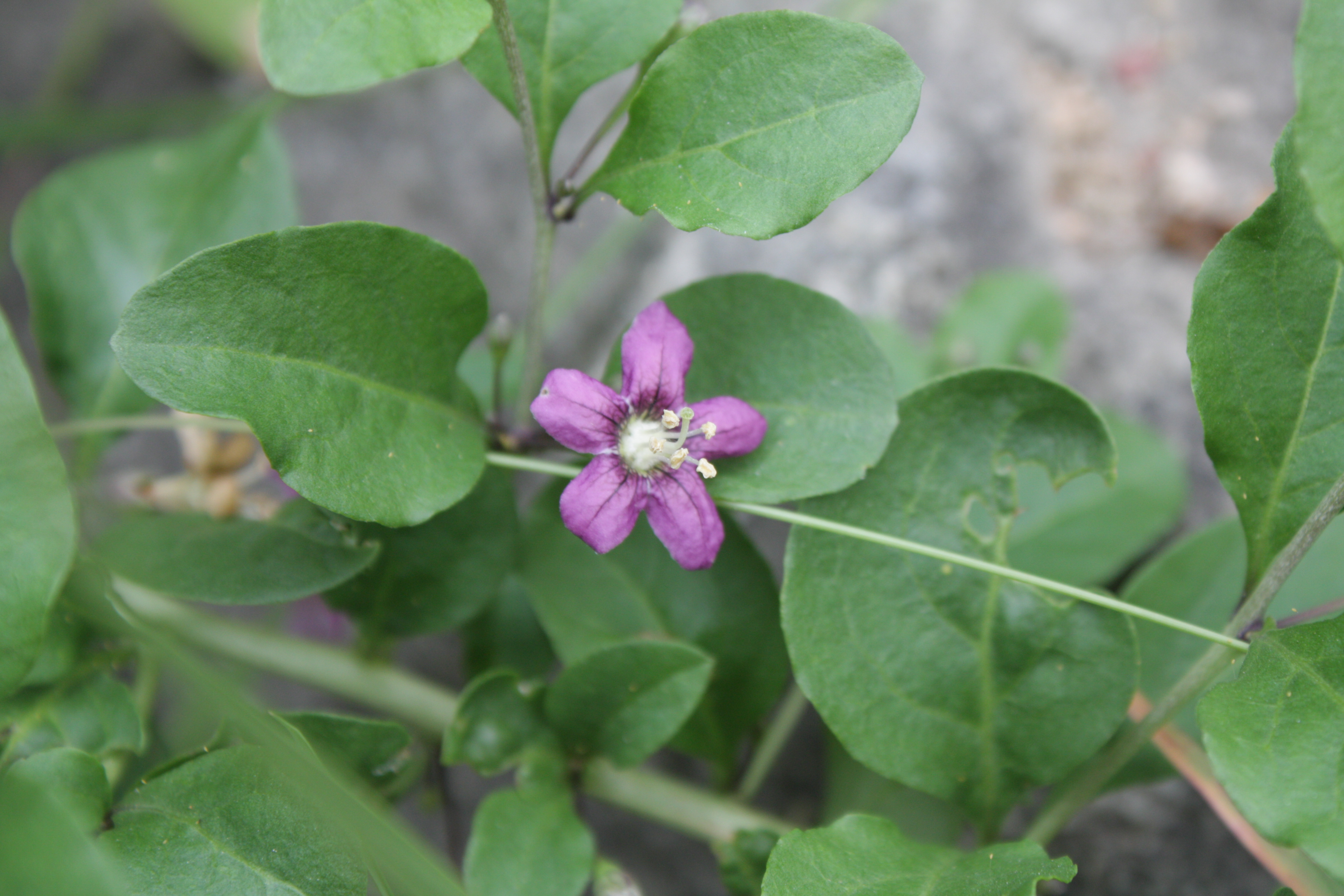 Lycium chinense